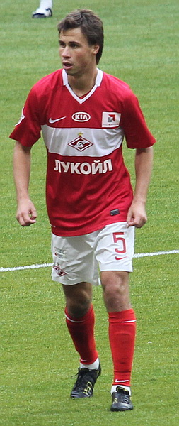 Alexandr Sheshukov